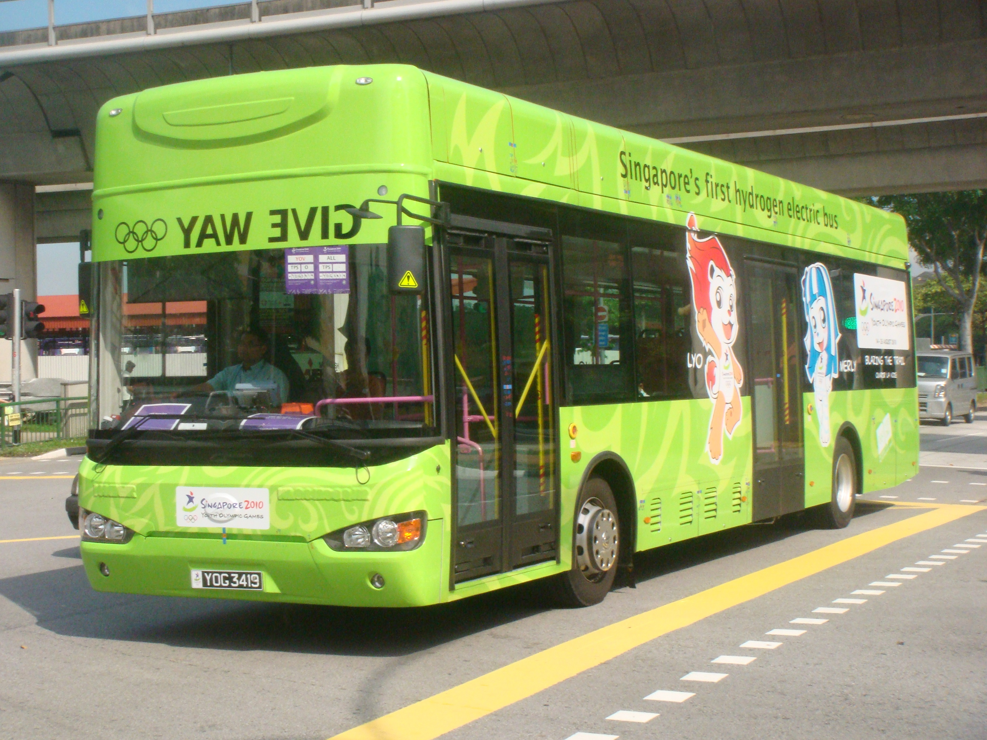 King Long Higer KLQ6129G Hydrogen Fuel Cell "GreenLite" during Youth Olympic Games 2010.